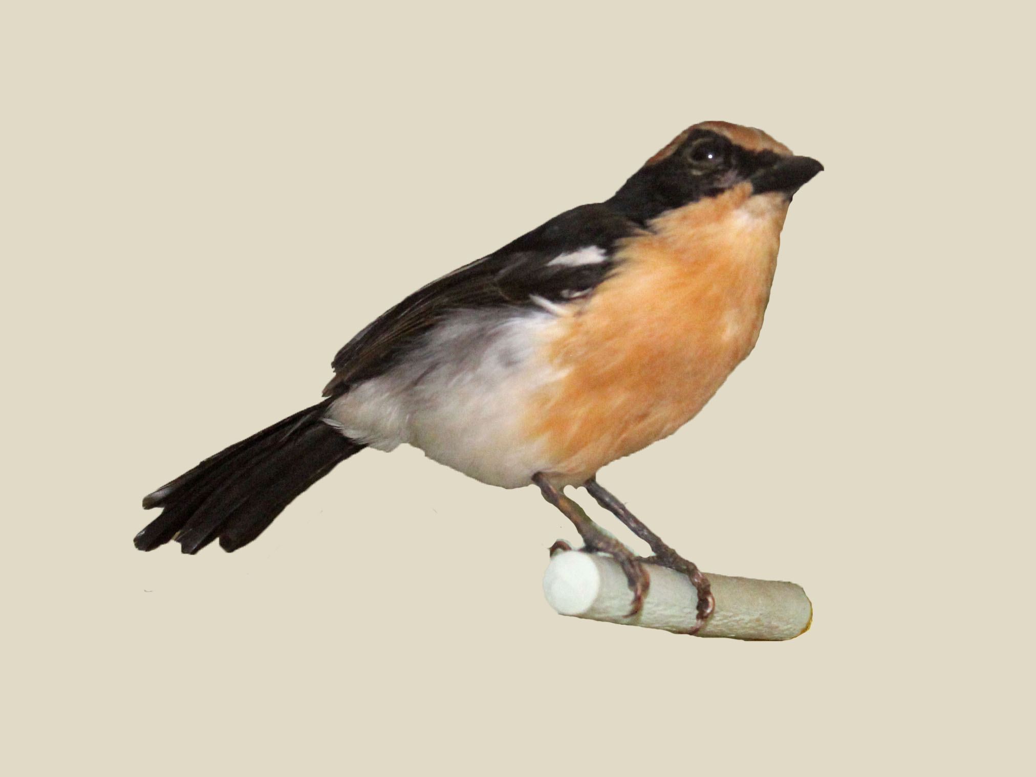 Luehder's Bushshrike (Laniarius luehderi). Photograph of a specimen at Nairobi National Museum in Nairobi, Kenya.